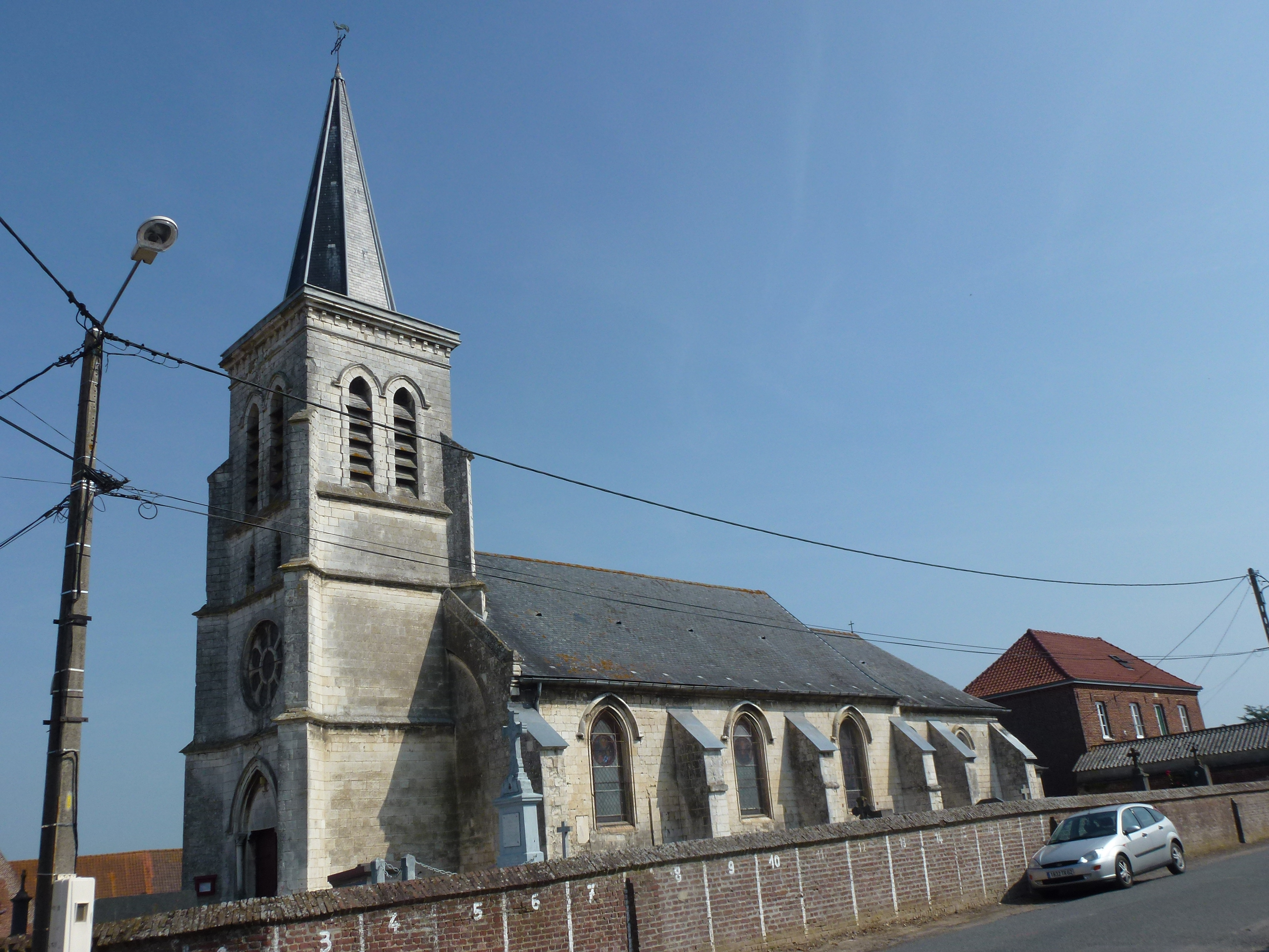 Mametz (Pas-de-Calais, Fr), église Saint-Honoré de Crecques, extérieur